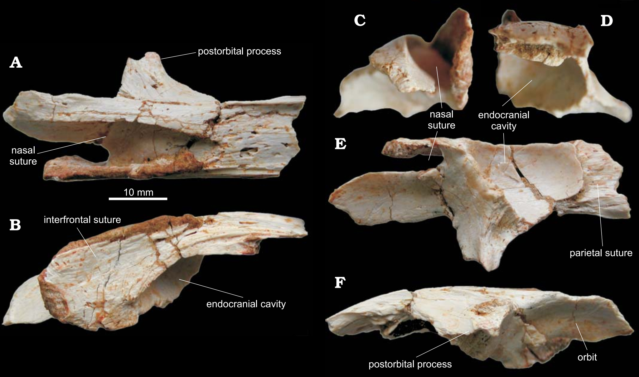 Elmisaurus rarus, MPC-D 102/007. Right frontal in dorsal (A), medial (B), anterior (C), posterior (D), ventral (E) and lateral (F) views. Abbreviations: end, endocranial cavity; intf, interfrontal suture; nas, nasal suture; orb, orbit; par, parietal suture; pop, postorbital process.